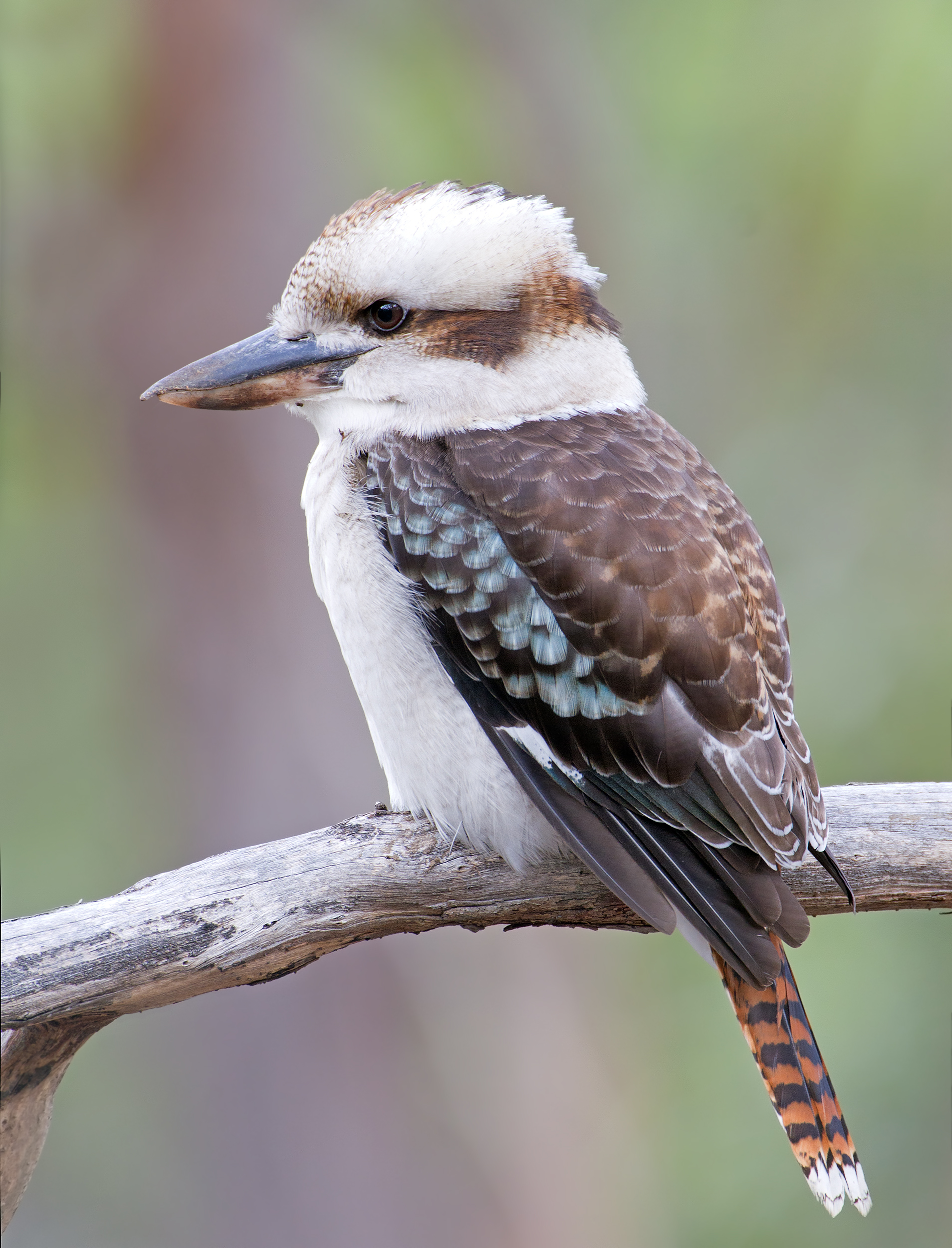 Laughing Kookaburra (Dacelo novaeguineae), Knocklofty Reserve, Hobart, Tasmania